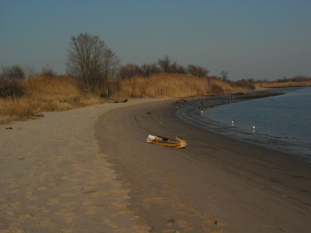 On the Southeast end of Gerritsen Avenue, someone can pass through the "gap in a barrier" and then walk by the send along the water and reed, all the way North to Avenue U.